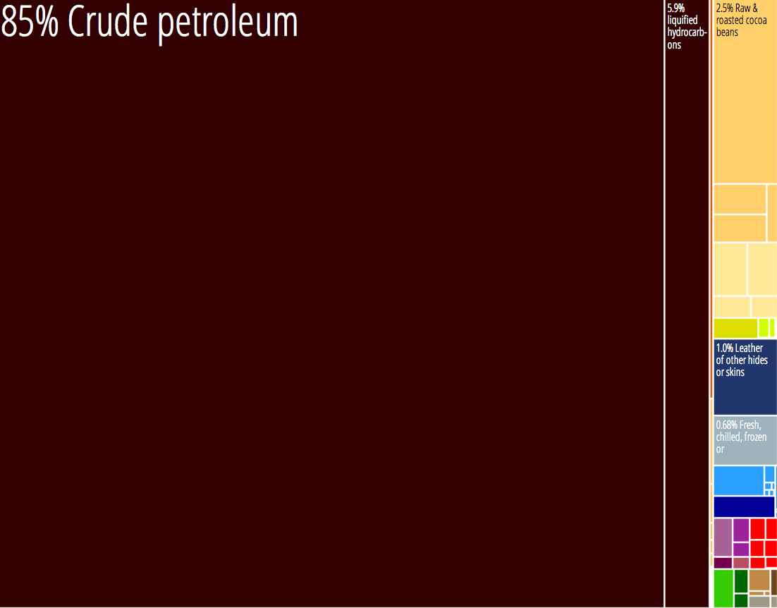 Graphical depiction of the country's product exports in 28 color coded categories. Each colored box represents one product and its size is proportional to the share of the country's total exports that the product represents.